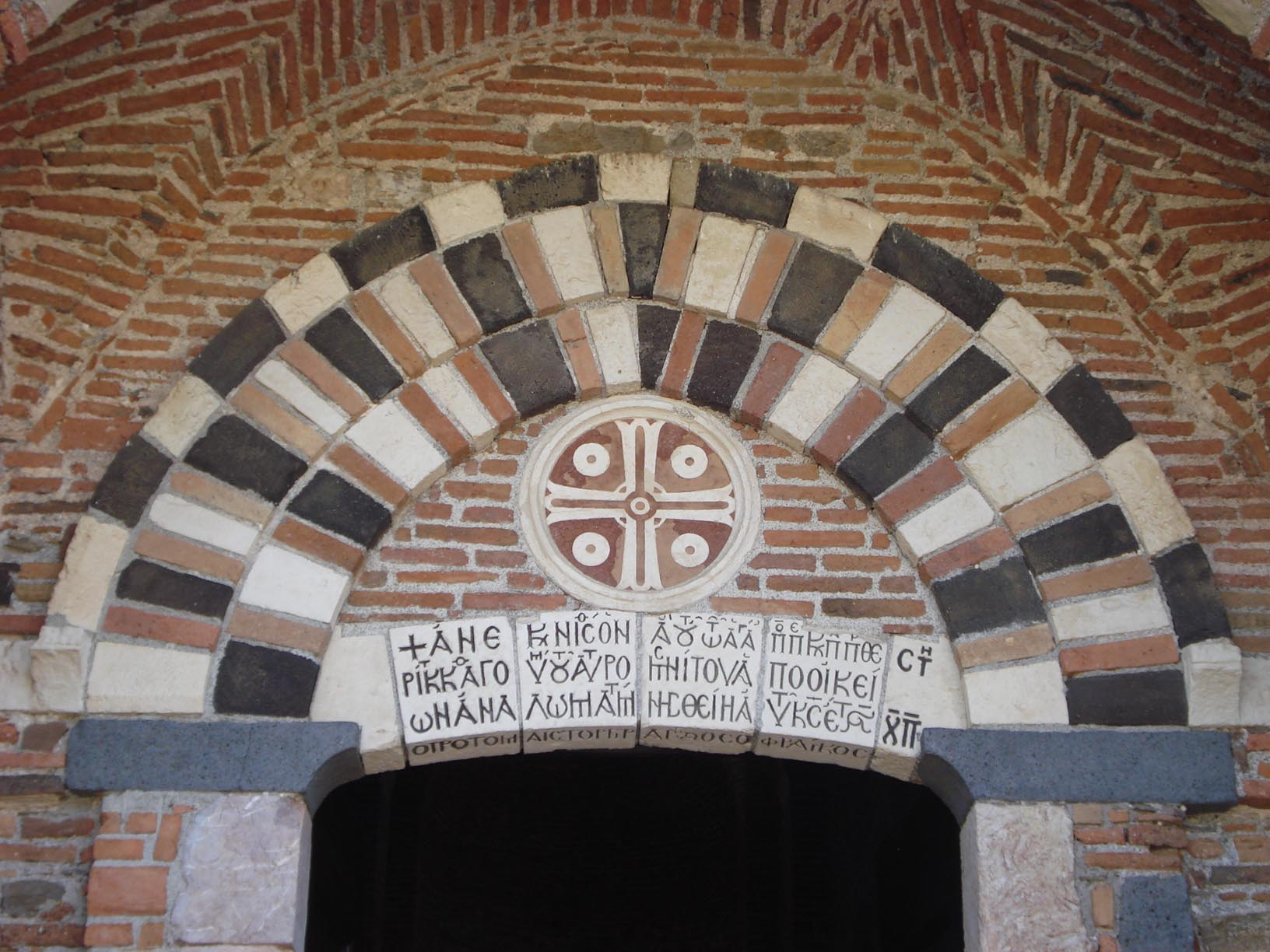 Greek cross and names of consructors above the door